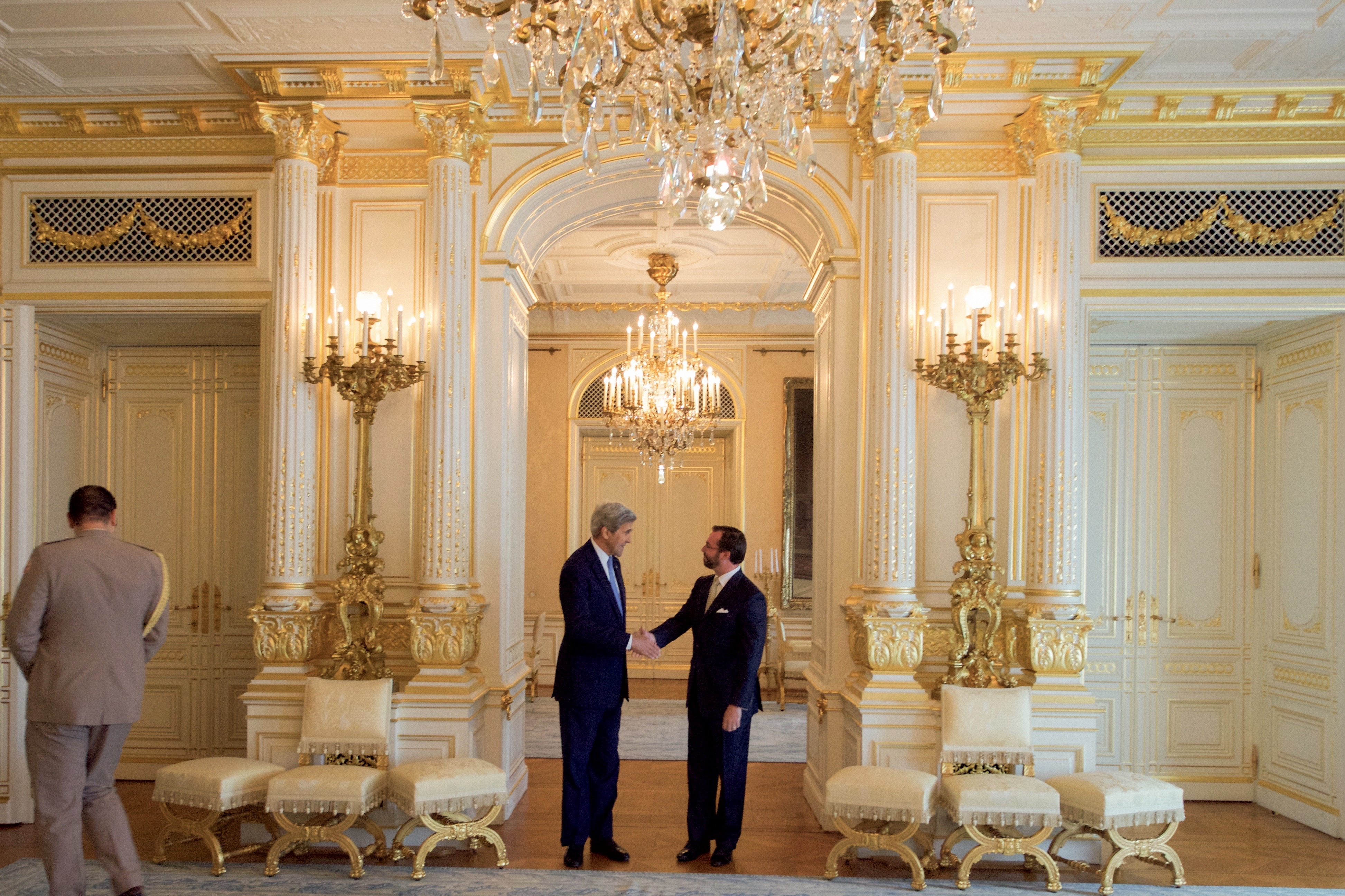 U.S. Secretary of State John Kerry shakes hands with Luxembourgian Crown Prince Guillaume on July 16, 2016, at the Grand Ducal Palace in Luxembourg City, Luxembourg, before a bilateral meetings. [State Department photo/ Public Domain]